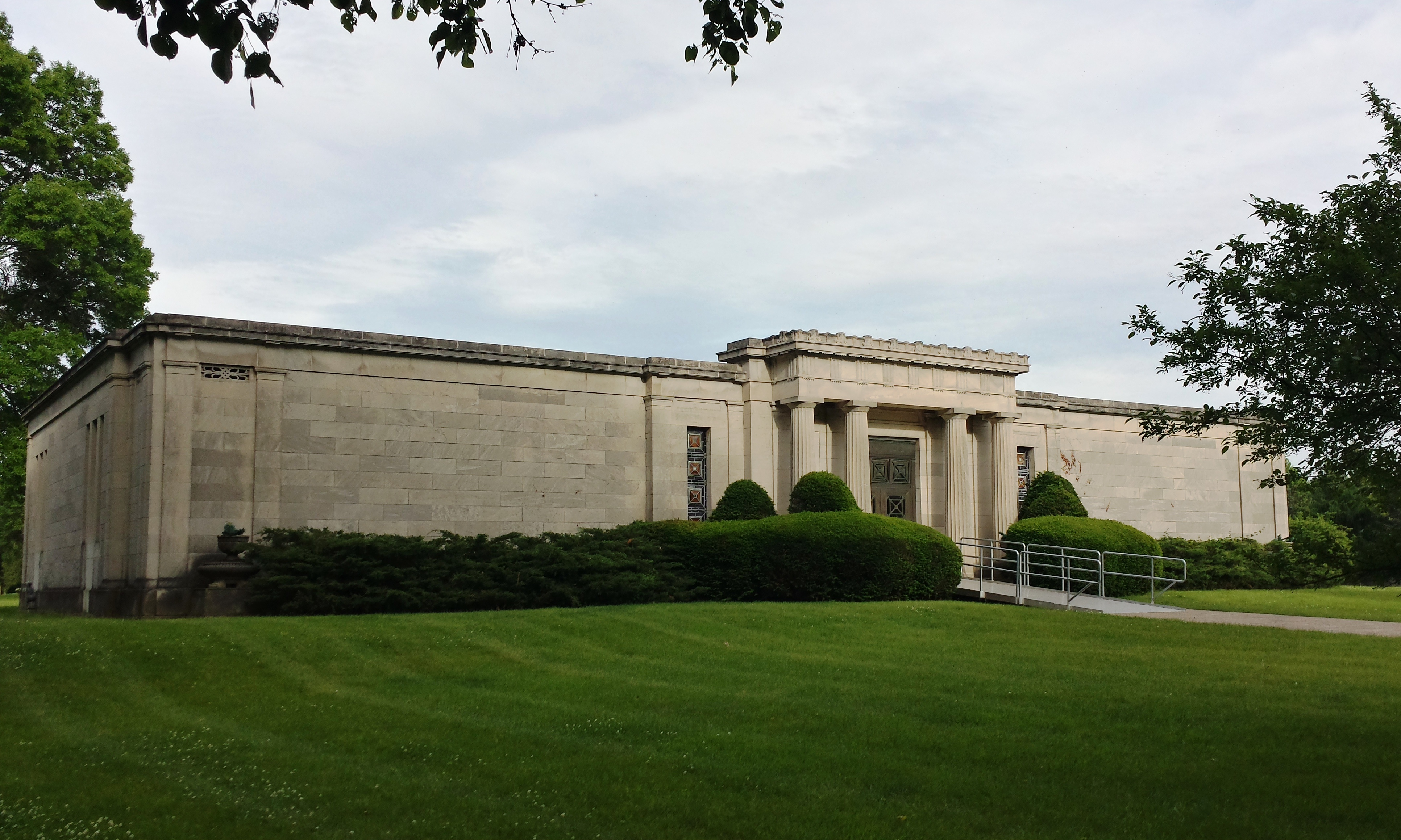 The community or public mausoleum at Oakdale Memorial Gardens in Davenport, Iowa. Designed by Seth J. Temple, built 1931 by the Heister Mausoleum Company. Formerly known as Oakdale Abbey.